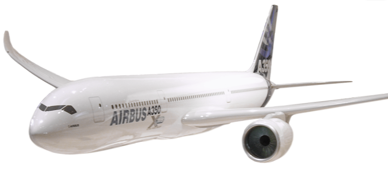 Airbus A350XWB model at ILA 2008